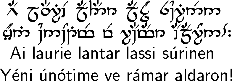 Example of Quenya writing in Tengwar